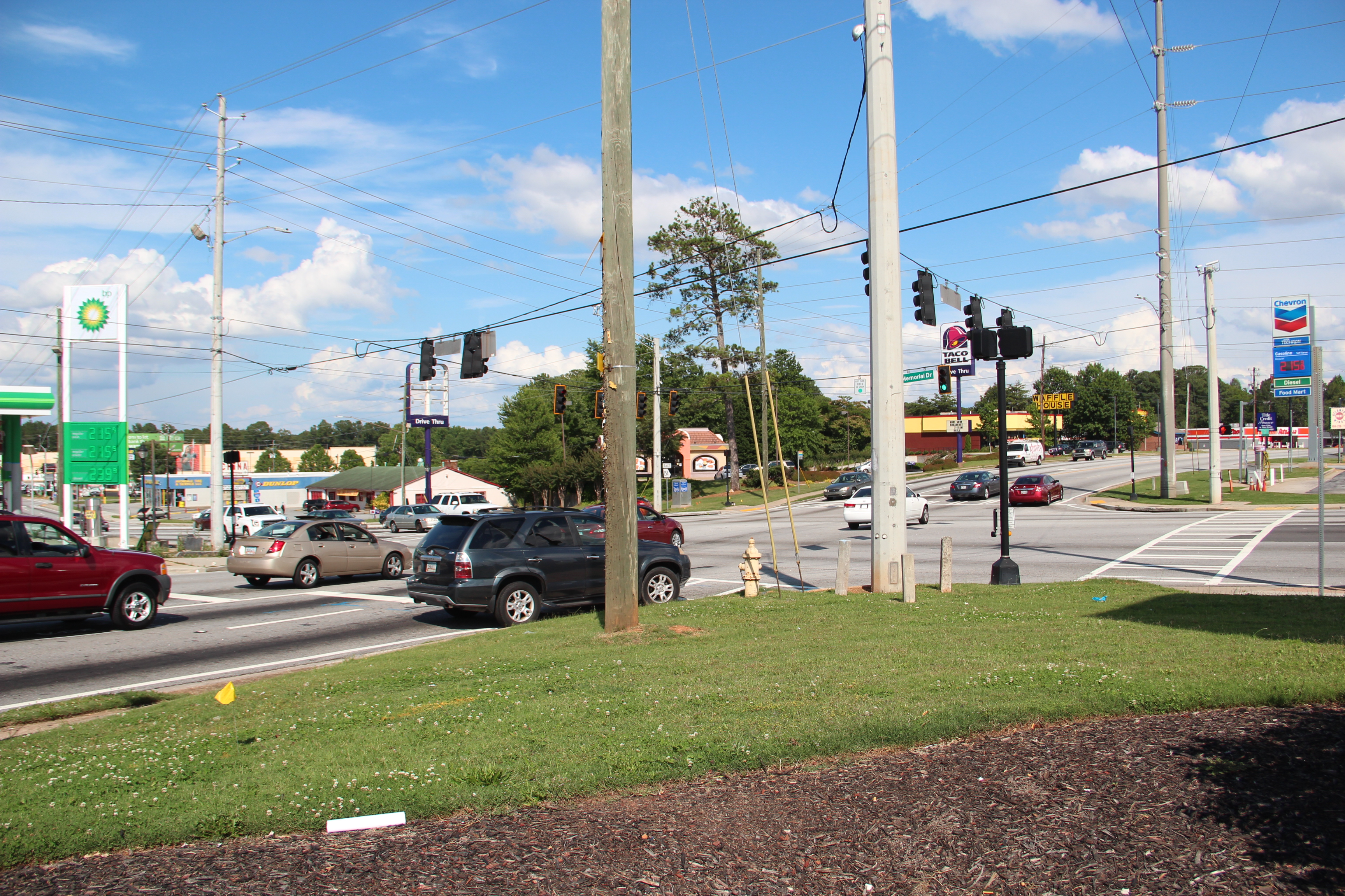 GA 154 @ Columbia Drive, Belvedere Park, Georgia